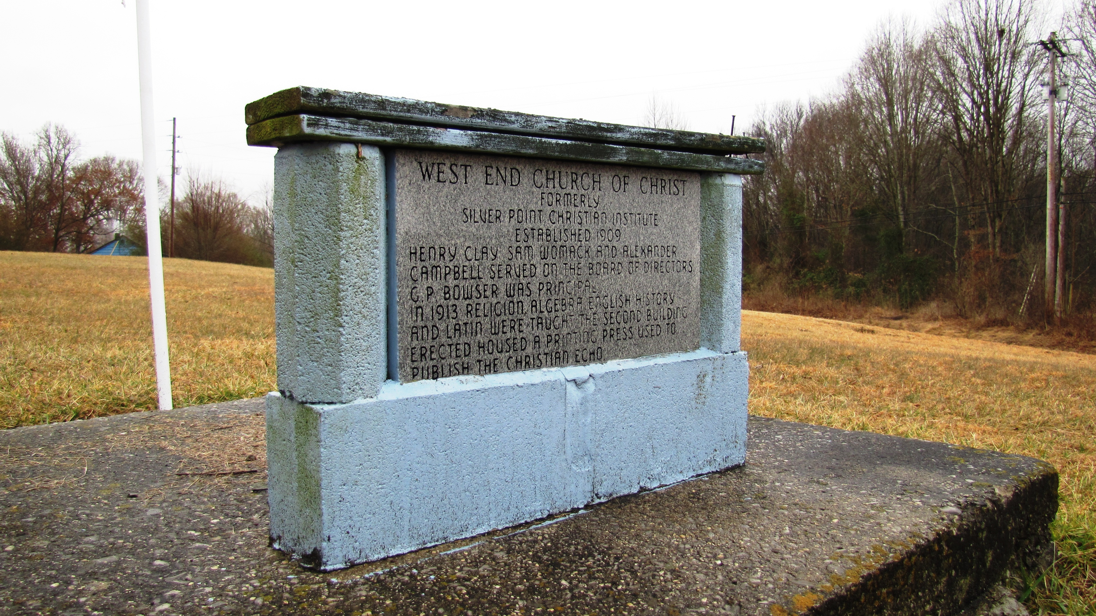 Monument commemorating the founding of the West End Church of Christ Silver Point and its predecessor, the Silver Point Christian Institute, in Silver Point, Tennessee, USA.